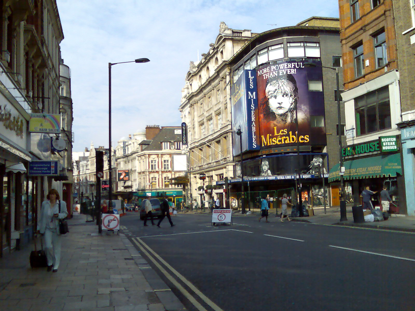 In the heart of the West End of London - the famous Shaftesbury Avenue in the morning...